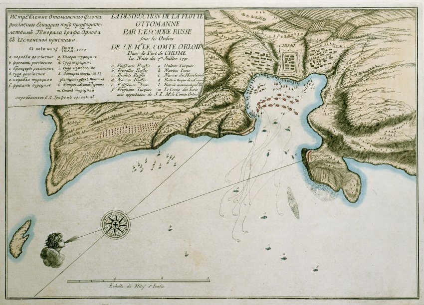 This is map of destroing Tukish navy in Chesma bay by russian navy count Orlov at night 6/7 july 1770